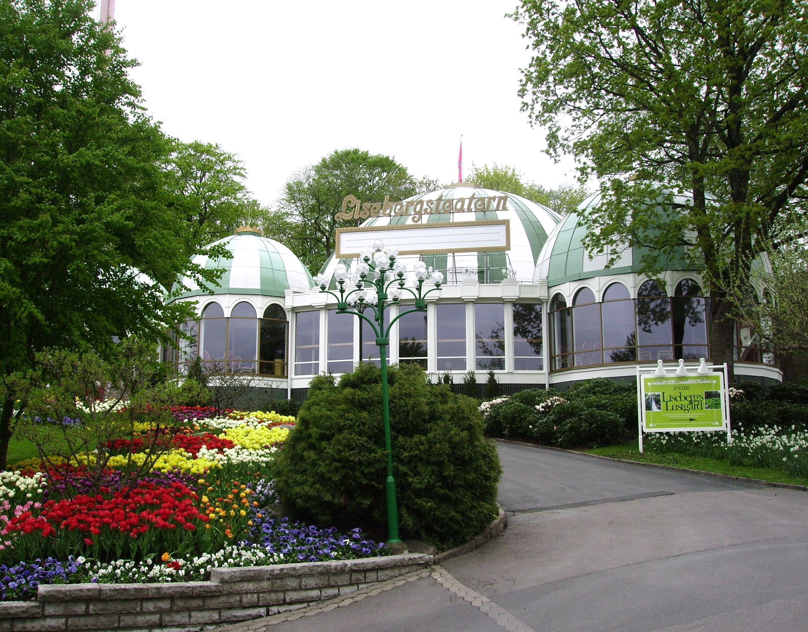 Picture of Lisebergsteatern in Göteborg